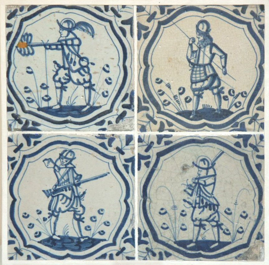 Decorated tiles showing soldiers armed with guns.